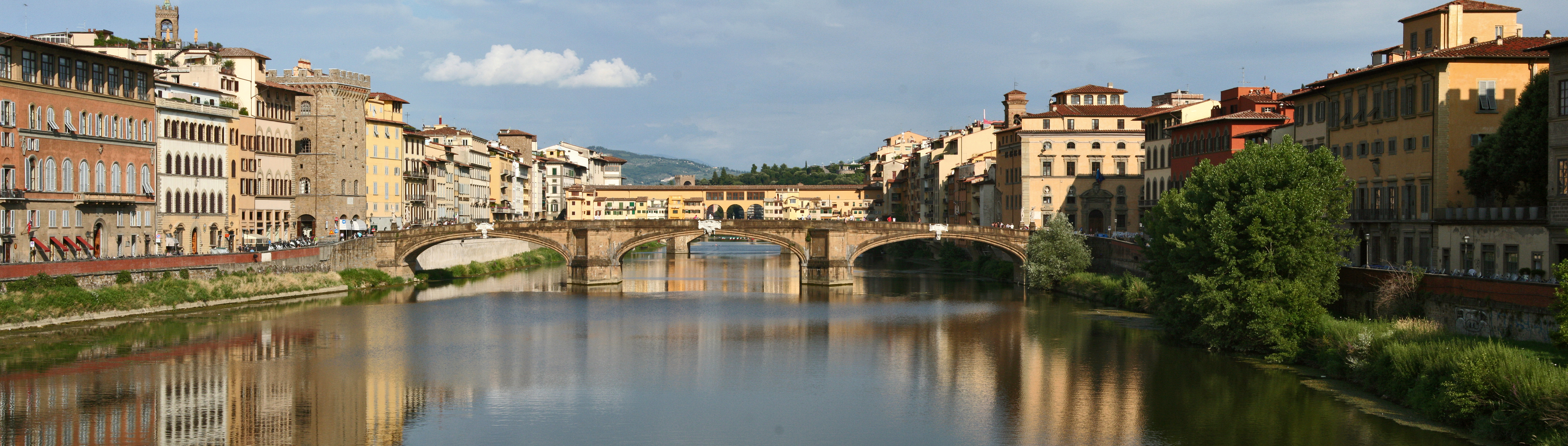 Birdge Santa Trina over River Arno, Firenze 2011